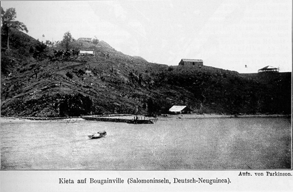 German Government-Station Kieta at the Island Bougainville, before 1909.